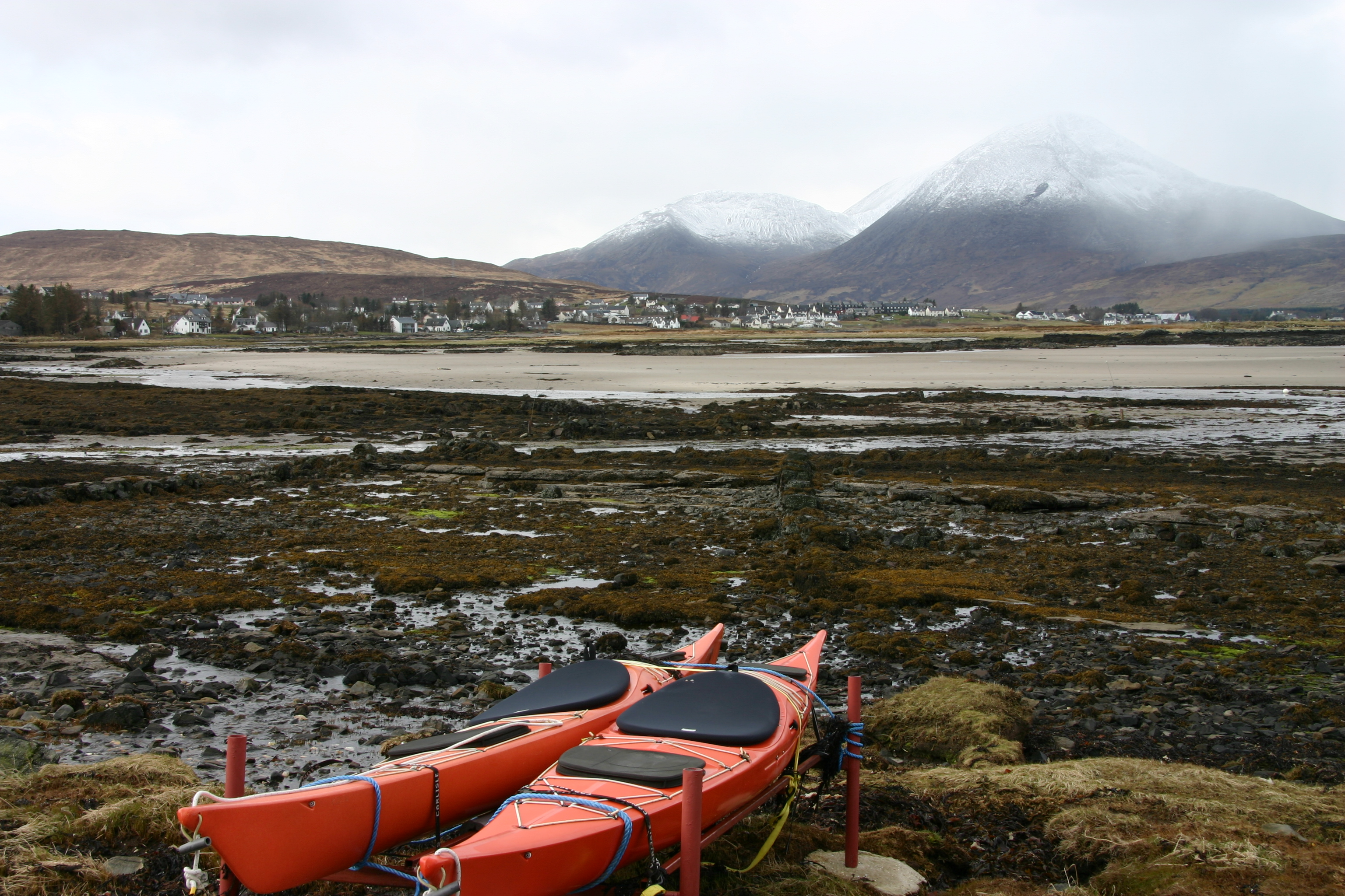 Kayaks stranded on the shore of Broadford bay